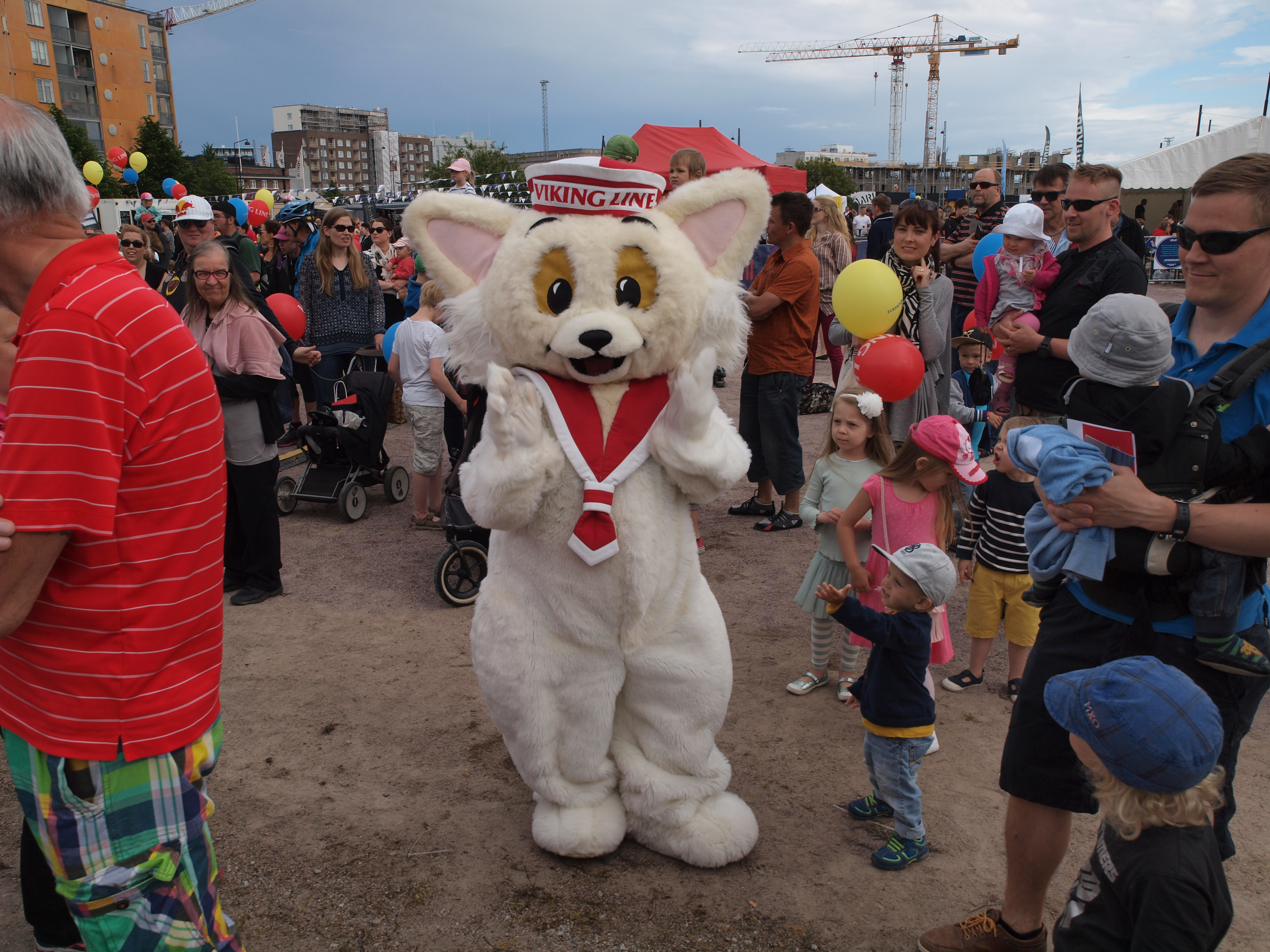 Ville Viking, the official mascot of the ferry company Viking Line, entertaining children at the Satamahulinat ("Harbour party") event in Jätkäsaari, southern Helsinki, Finland, celebrating the 50th anniversary of the Helsinki-Tallinn ferry route.